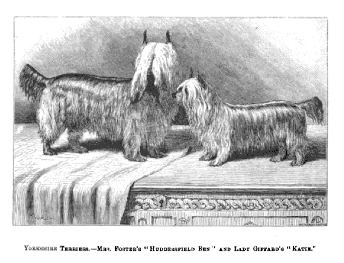 Yorkshire Terriers -Mrs. Foster's "Huddersfield Ben" and Lady Giffard's "Katie" c. 1870. "Huddersfield Ben" was the dog that defined the type of today's Yorkshire Terrier breed.